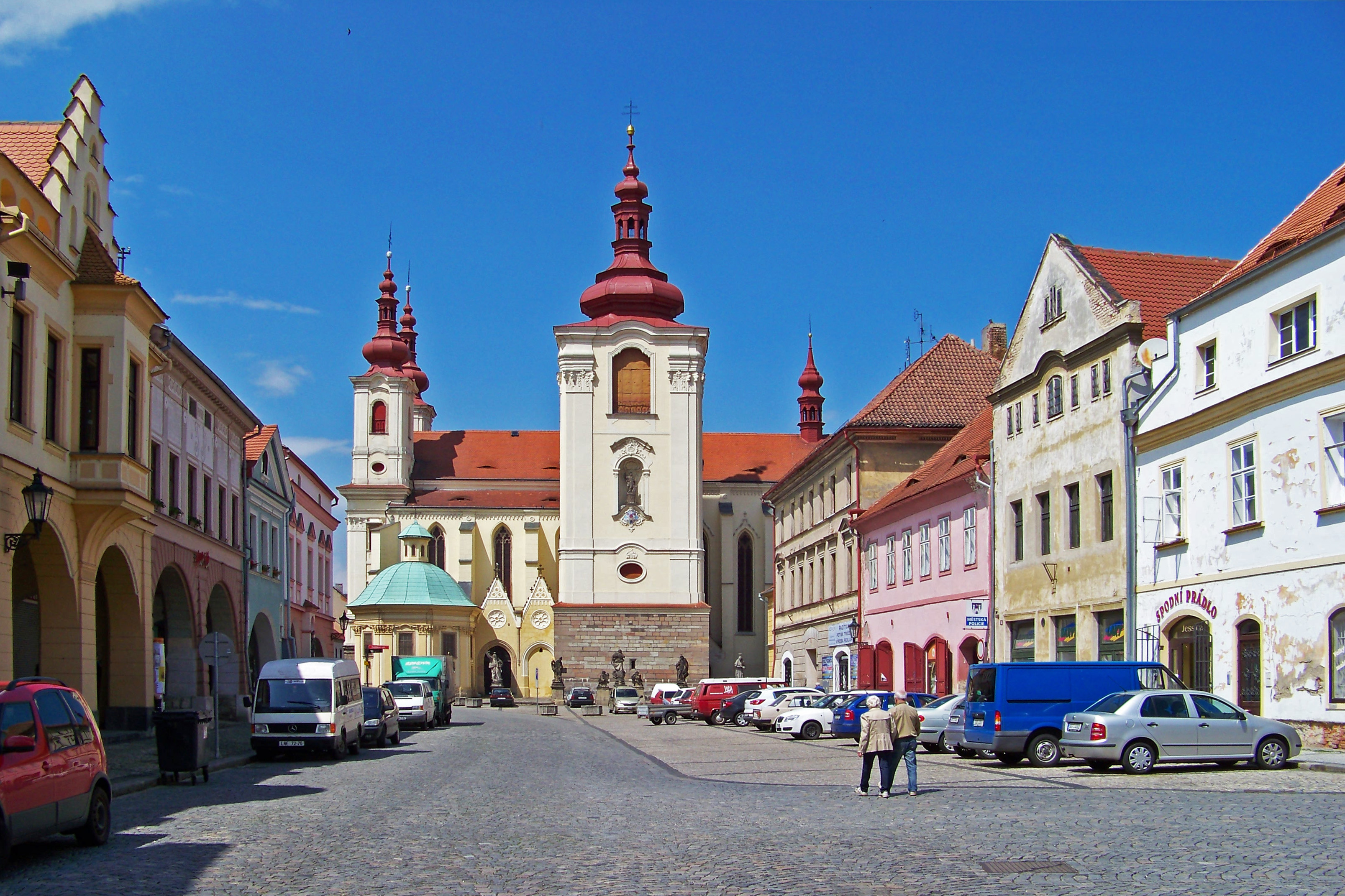 Žatec, Louny District, Ústí nad Labem Region, Czech Republic. Hošťálkovo náměstí, church of the Assumption of the Virgin Mary.